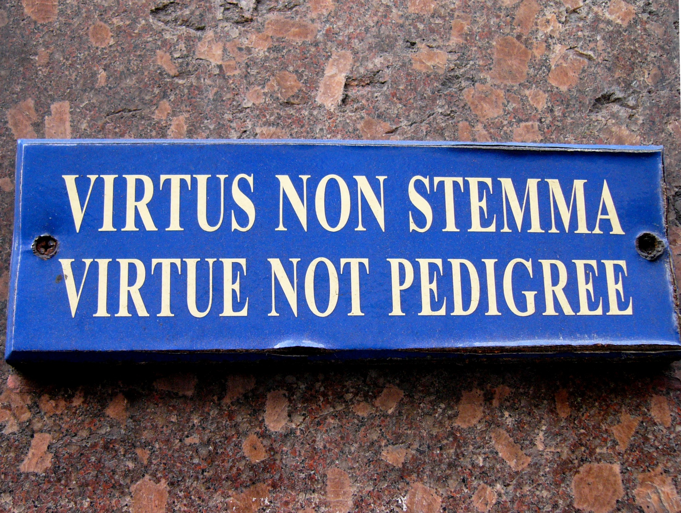 The motto on a plaque, at the Duke of Westminster's mansion